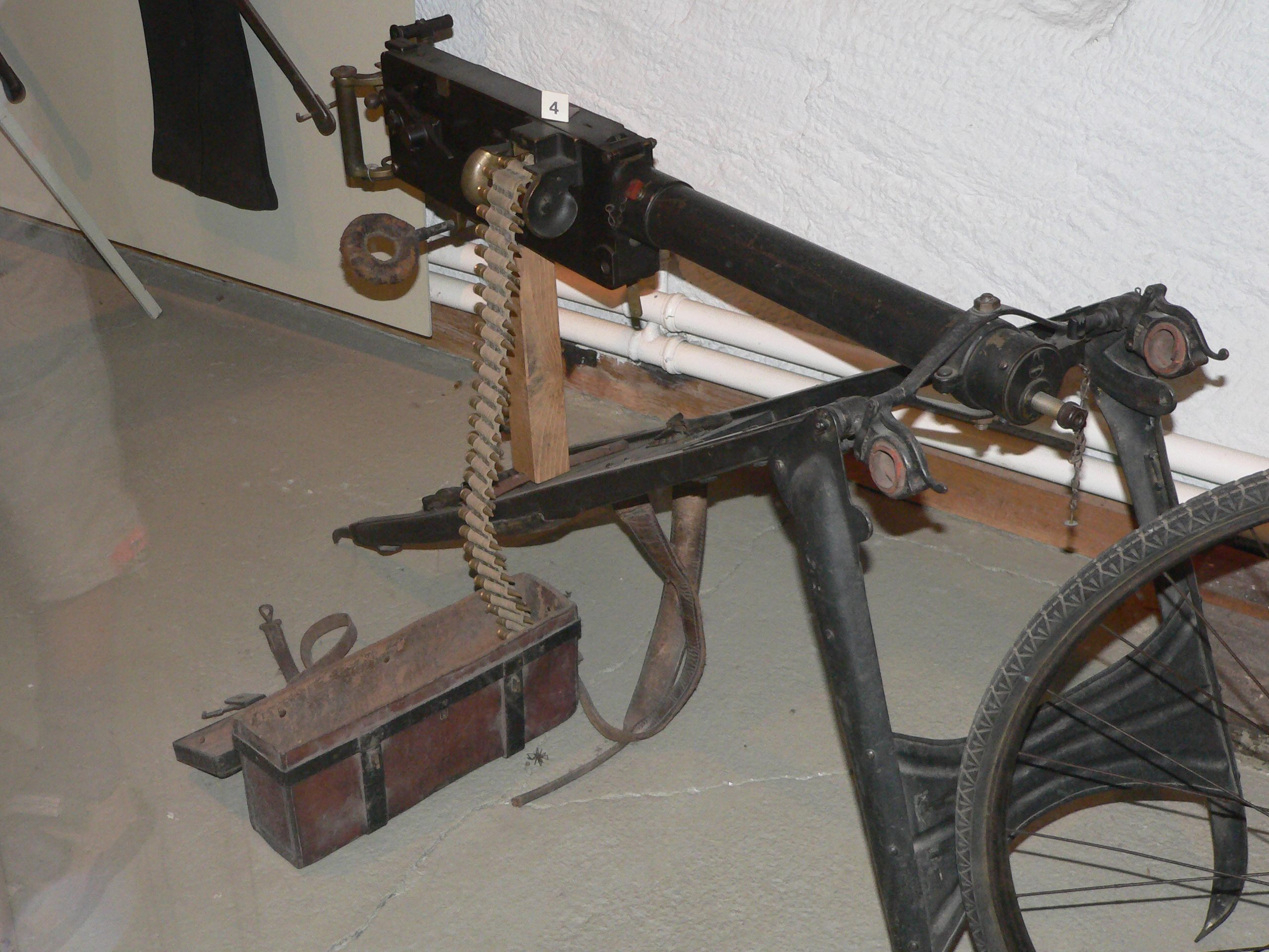 Machine gun, museum of Morges castel, Switzerland